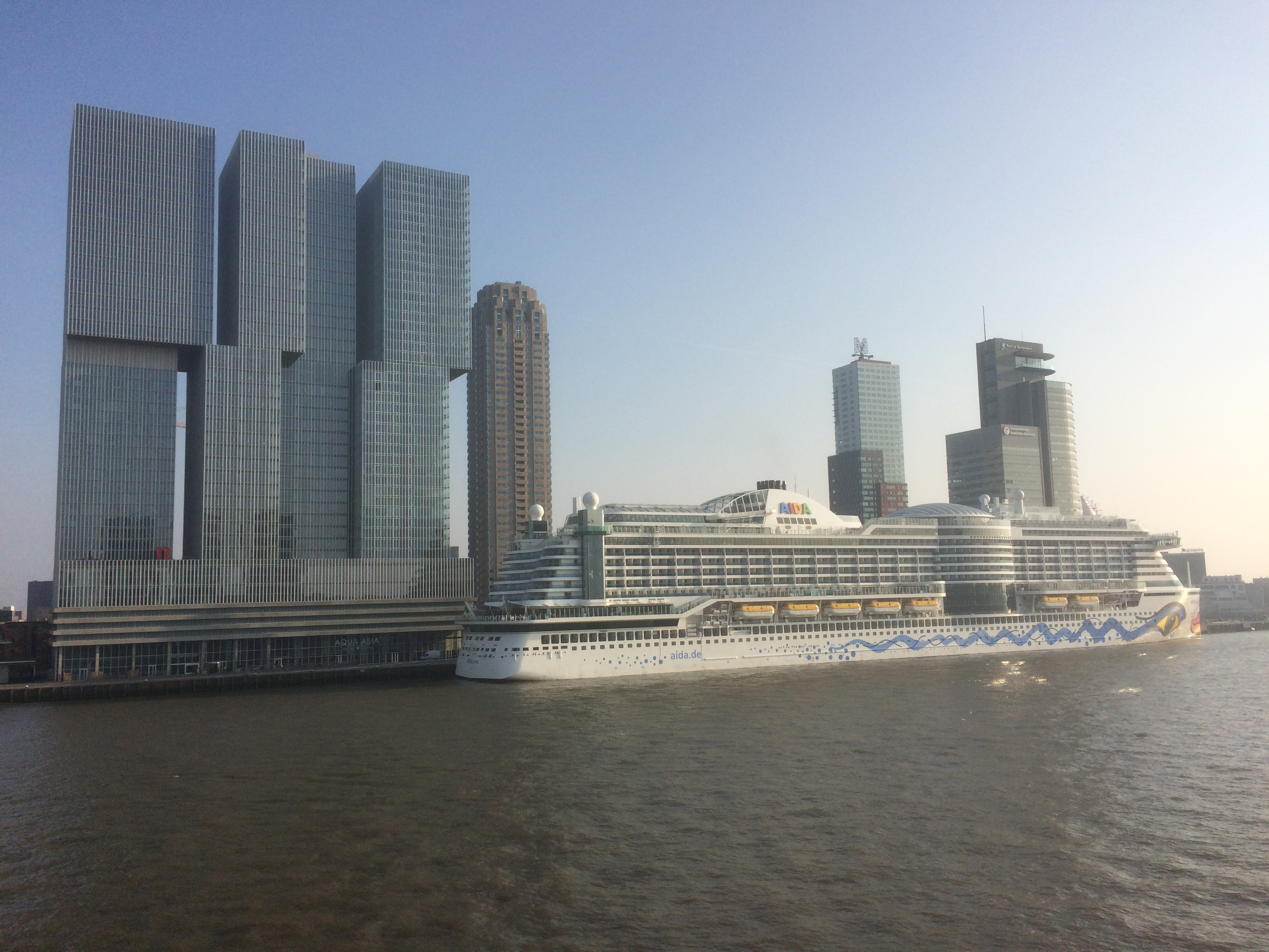 View of De Rotterdam from the Erasmus Bridge (Erasmusbrug).